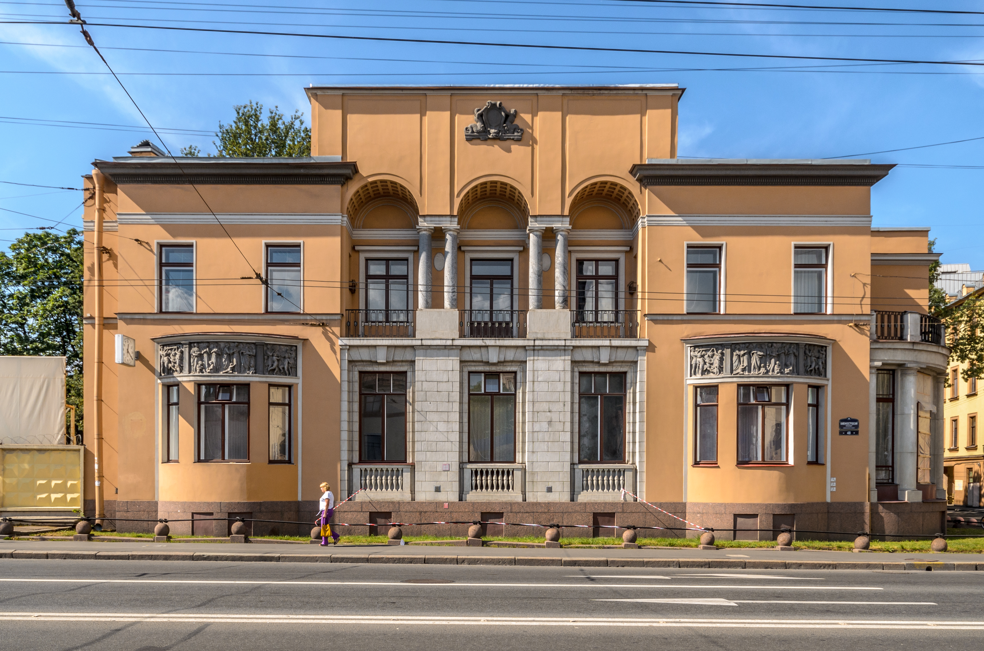 Kamennoostrovsky Avenue in Saint Petersburg